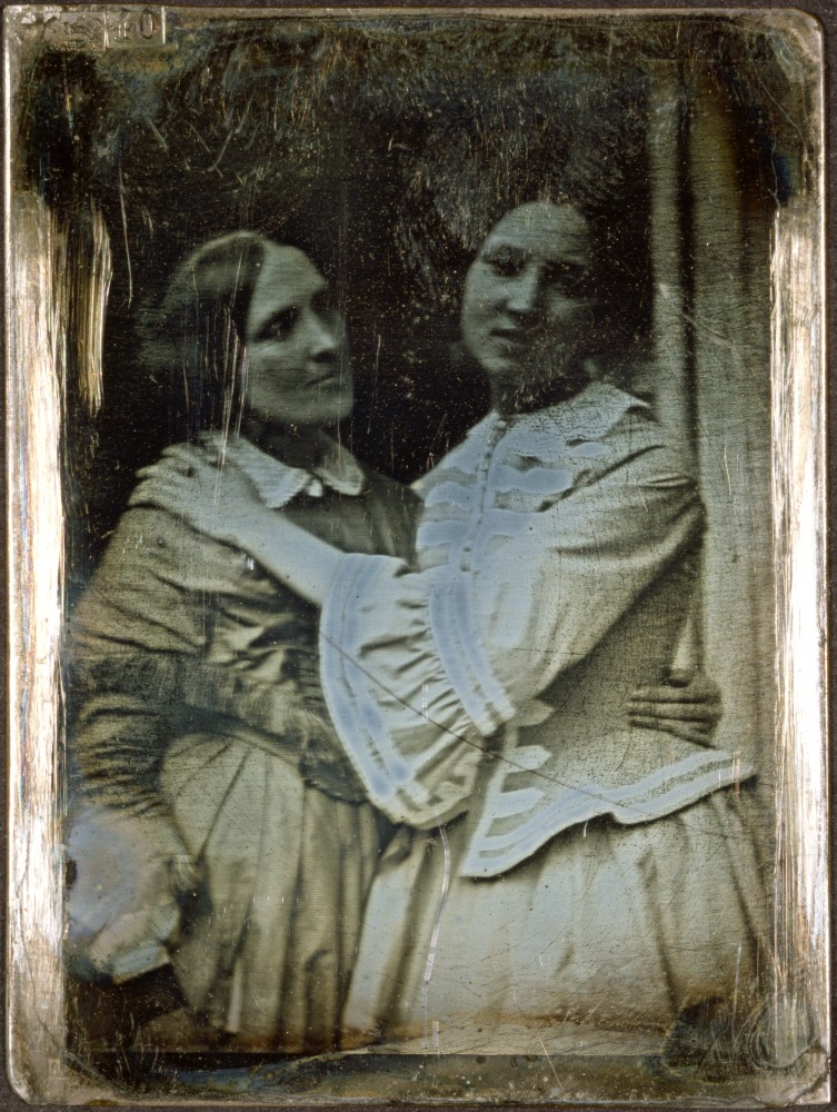 Accession Number: 1976:0168:0069 Maker: Cromer's Amateur Title: Two women Date: ca. 1848 Medium: daguerreotype Dimensions: 7.2 x 5.3 cm., 1/9 plate George Eastman House Collection General – information about the George Eastman House Photography Collection is available at For information on obtaining reproductions go to